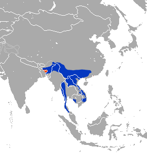 Stump-tailed Macaque (Macaca arctoides) range (blue — native, red — introduced, orange — possibly extinct)